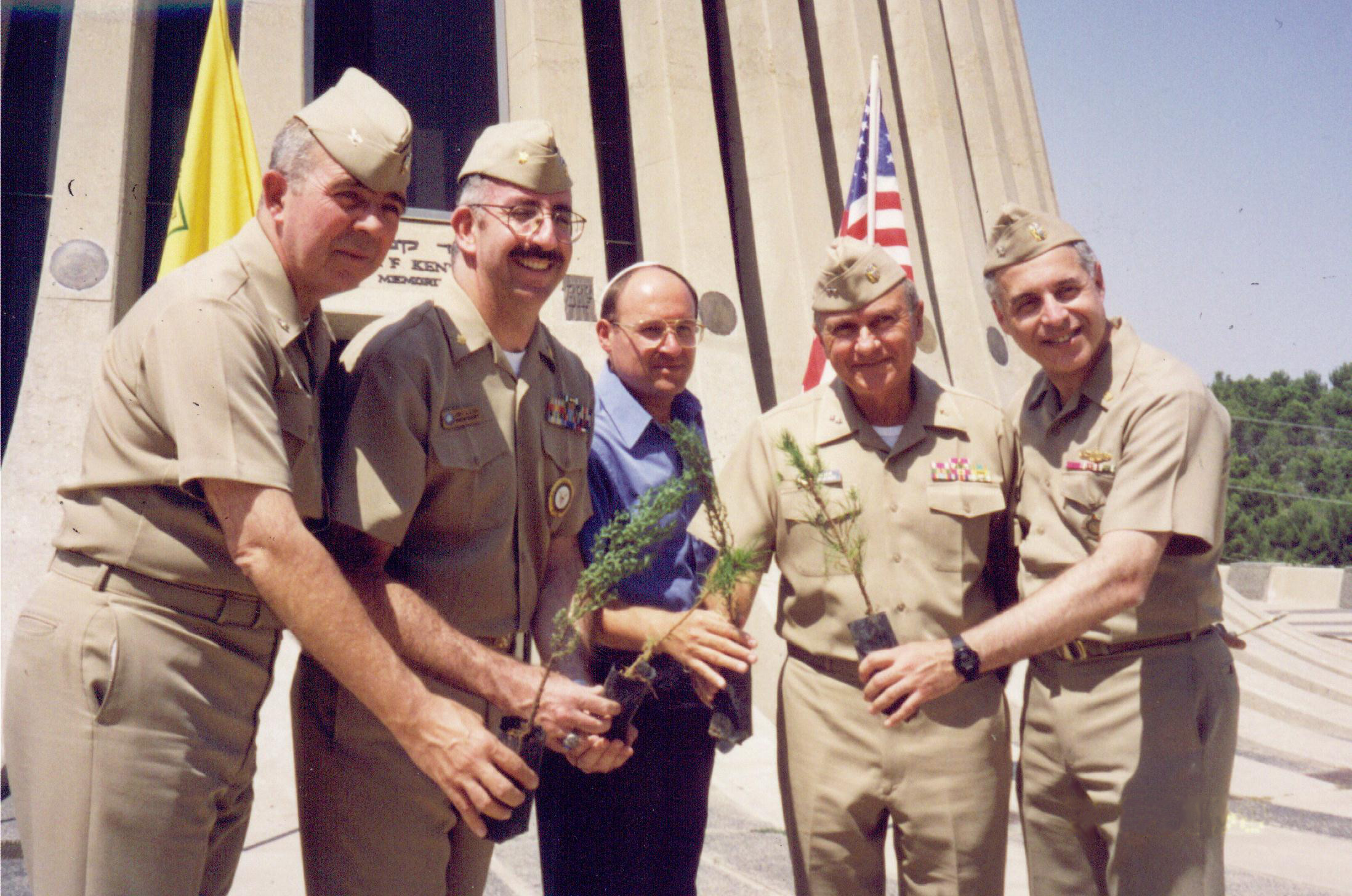 Photo of August 29, 1998 visit of Navy Chief of Chaplains Rear Admiral Byron Holderby to Israel's John F. Kennedy Memorial (Yad Kennedy) to plant trees at the Kennedy Peace Forest. Pictured in photo, left to right are: USN Chaplain (Captain) Thomas Giuntoli, then chaplain for U.S. Navy Europe; Rabbi (chaplain) Irving Elson, visiting Israel to speak about the role of chaplains to U.S. rabbinical students studying in Israel; Mr. Avi Dickstein, Director of Resource Development and Public Affairs, Keren Kayemet LeYisrael-Jewish National Fund; United States Chief of Navy Chaplains Rear Admiral Byron Holderby; and Rabbi (chaplain) Arnold E. Resnicoff, then Command Chaplain for the U.S. European Command, who arranged and coordinated Chaplain Holderby's visit.